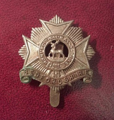 Photo of Bedfordshire Regiment Badge from personal collection